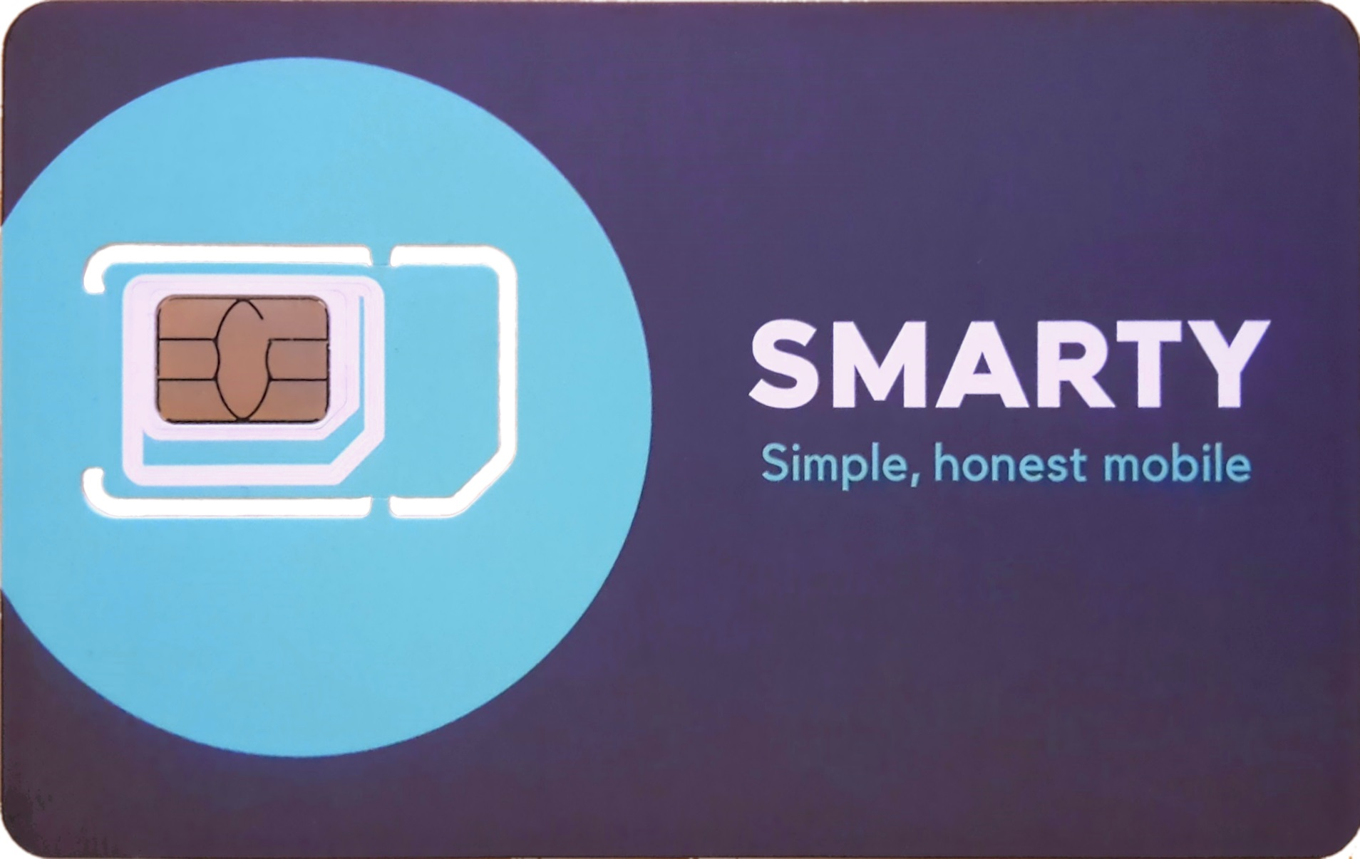 SIM card for SMARTY mobile network